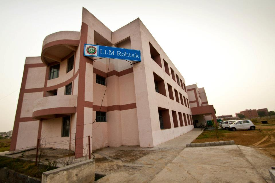 IIM Rohtak academic building